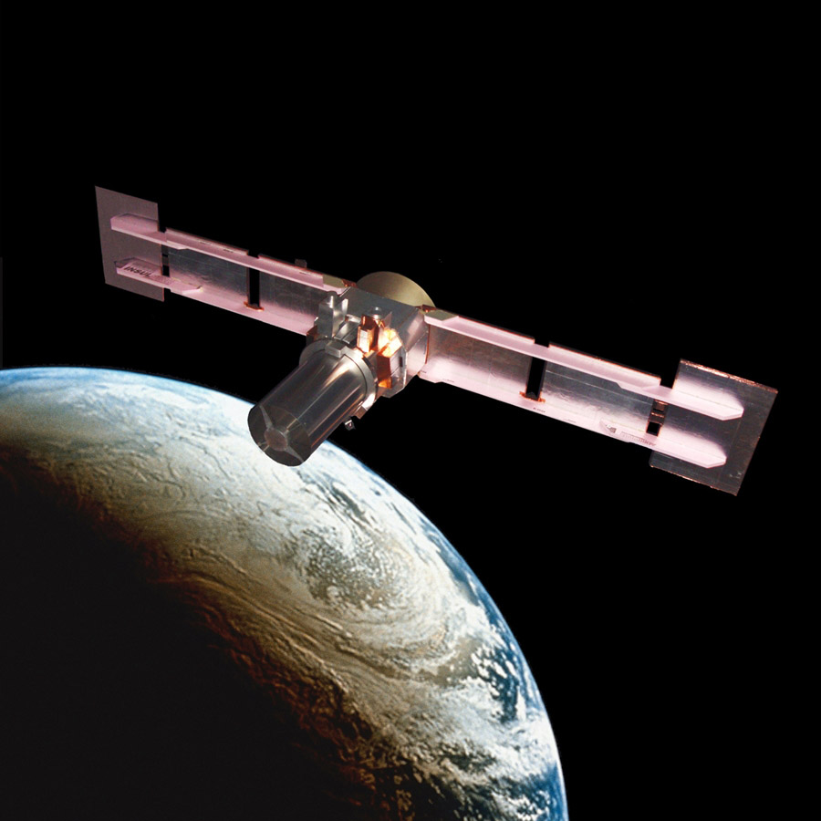 TacSat-2 illustration